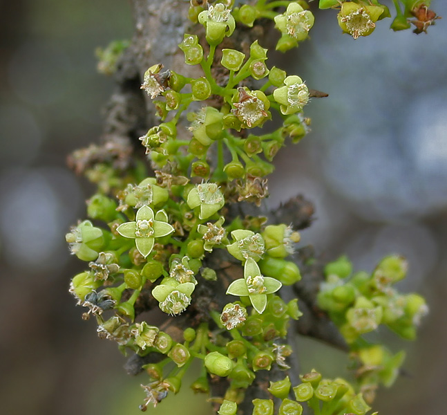 Canthium coromandelicum - Coromandel Canthium, Kirma, Kadbar, Nallakkarai, Kudiram, Sengarai, Kantankara, Niruri, Serukara, Sinnabalusu, Balusu,Karemullu, Ollepode, Tutidi, Kayili, Nagabala or Gangeruki at Deer Park in Shamirpet, Rangareddy district, Andhra Pradesh, India.